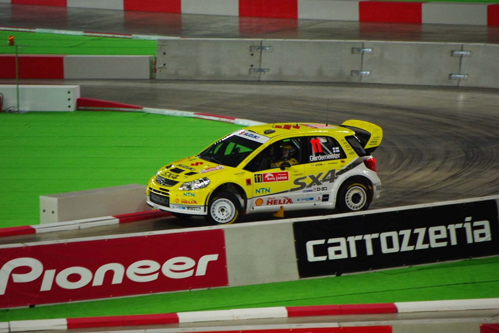 Toni Gardemeister driving his Suzuki SX4 WRC at a Sapporo Dome super special stage of the 2008 Rally Japan.